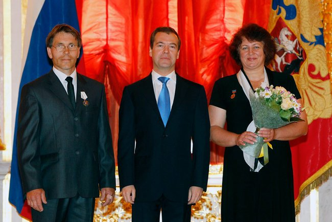 Russian president Dmitry Medvedev presenting the Order of Parental Glory to Irina and Sergey Levin for raising nine children.